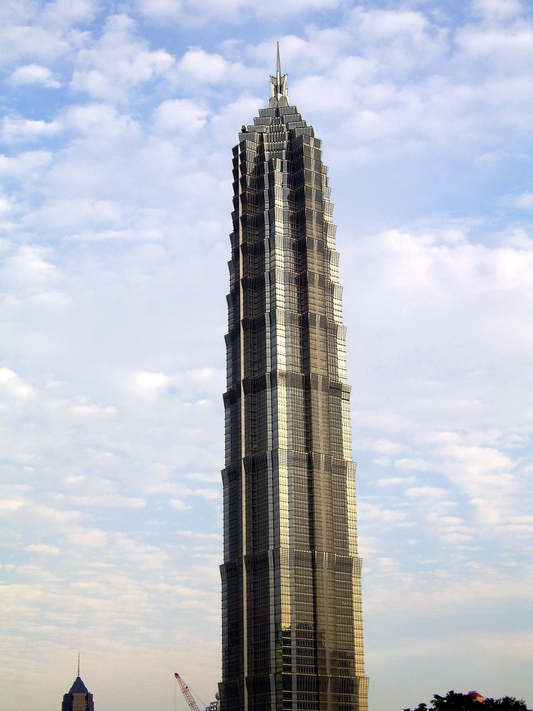 The Jin Mao Tower in 2005, with a crane beginning the construction of the SWFC visible in background.